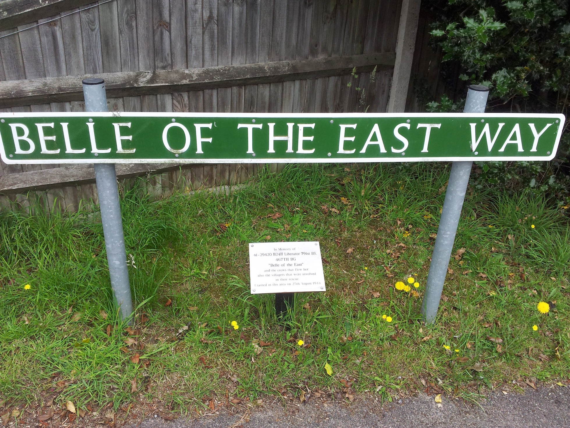 Street sign in Belton, Norfolk.